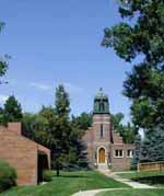 Campus shot of Denver Academy's Library from the Quad